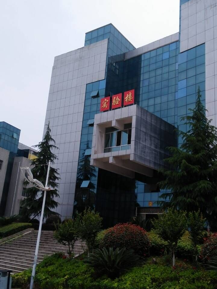 Shaoyang Medical College is a college in Shaoyang, Hunan, China.